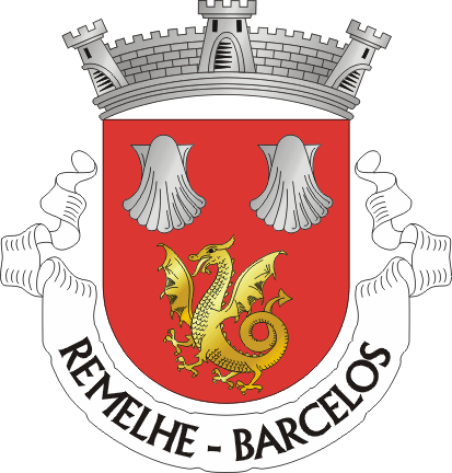 Crest of Remelhe, a parish in the municipality of Barcelos (Portugal)